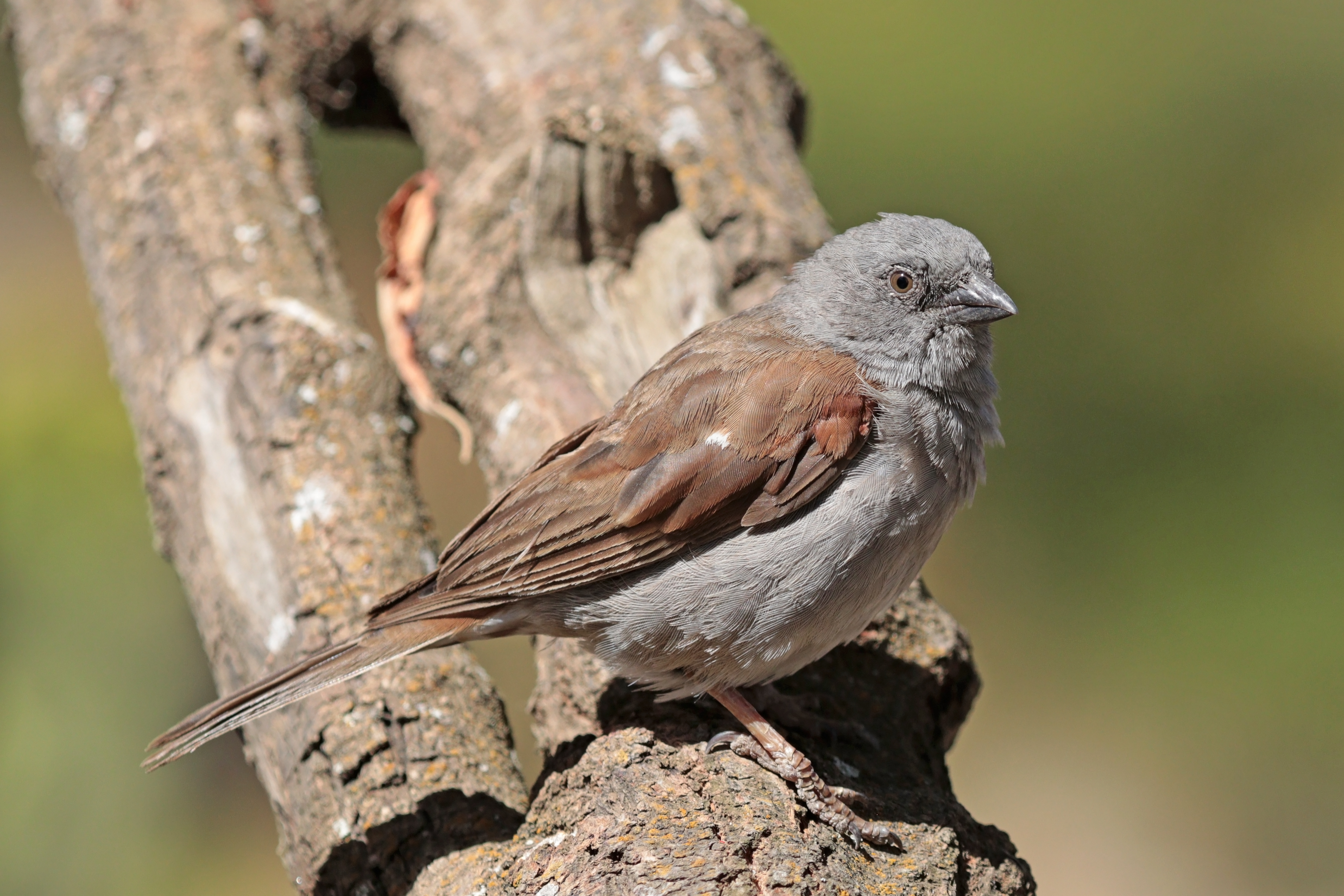 Swainson's sparrow (Passer swainsonii), Near Debre Libanos, Ethiopia